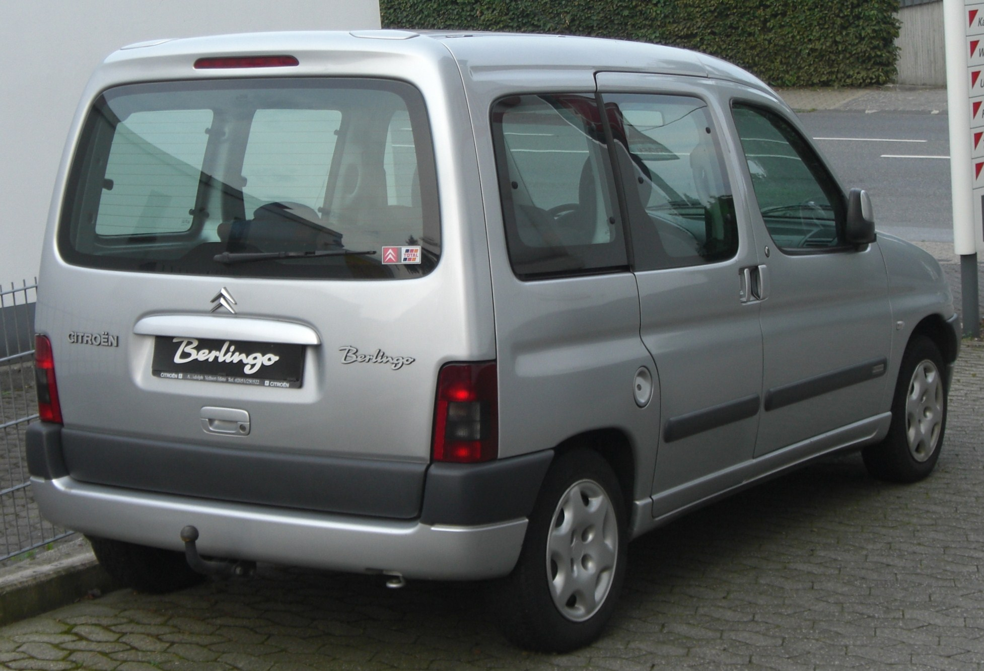 Citroën Berlingo I